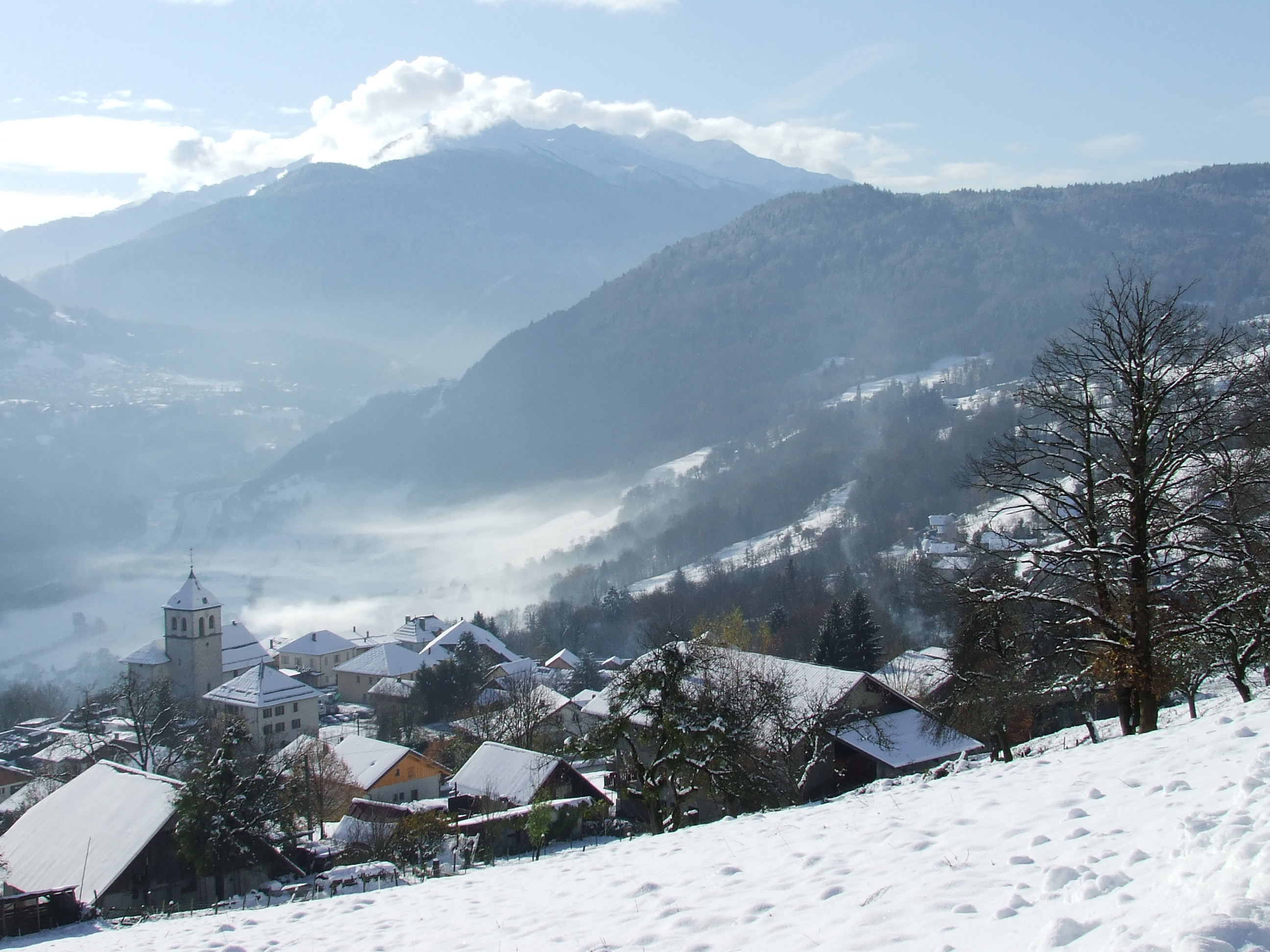 Marthod and snow